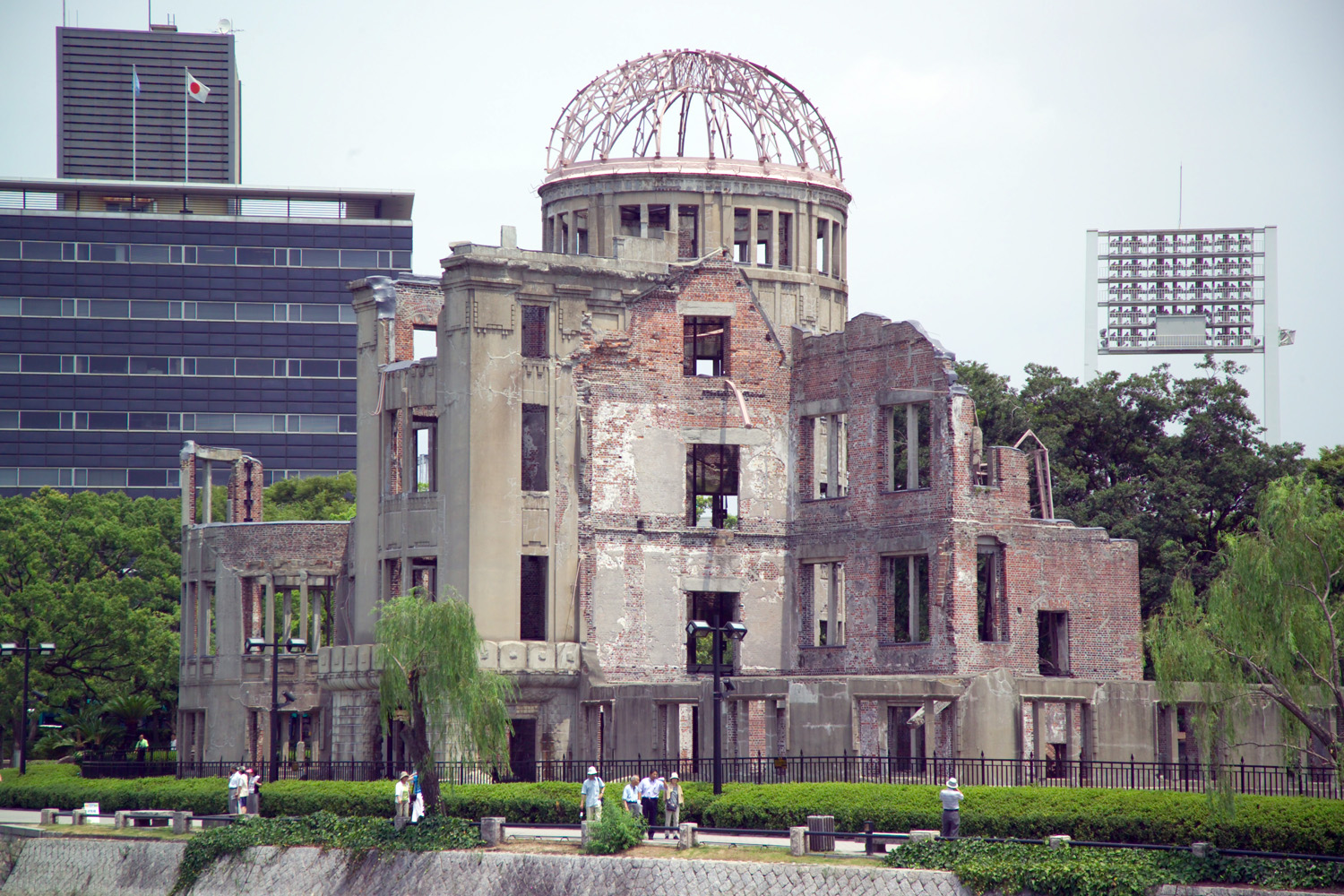 Atomic bomb dome (Genbaku Dome), Hiroshima, Japan. Lighting tower at top right is at Hiroshima Shimin Kyujo (Hiroshima Citizens' Ballpark). I took the photo.